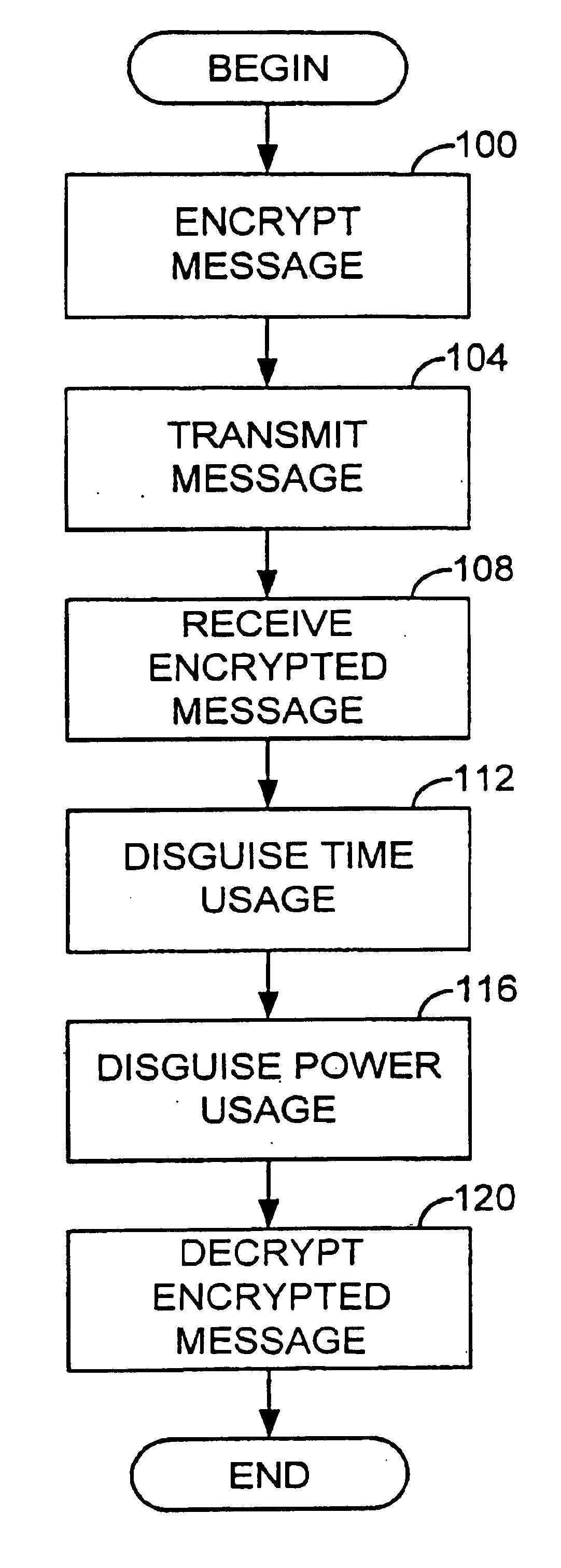 взлом